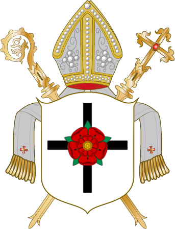 Coat of arms of Diocese of Erfurt. Source: bistum-erfurt.de